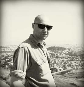 This is a photograph of the artist Marc Atkins